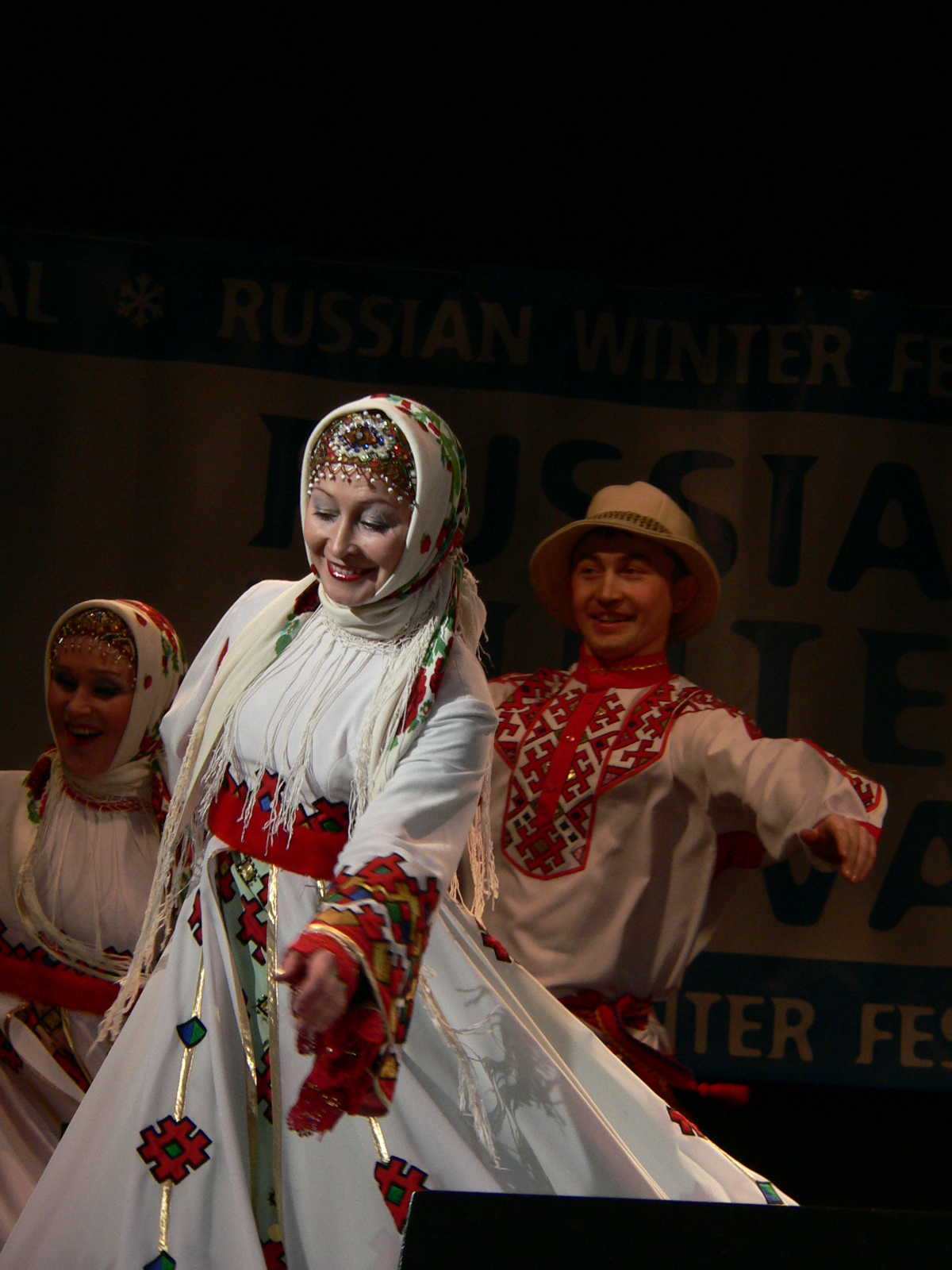 The Chuvash State Ensemble of Song and Dance